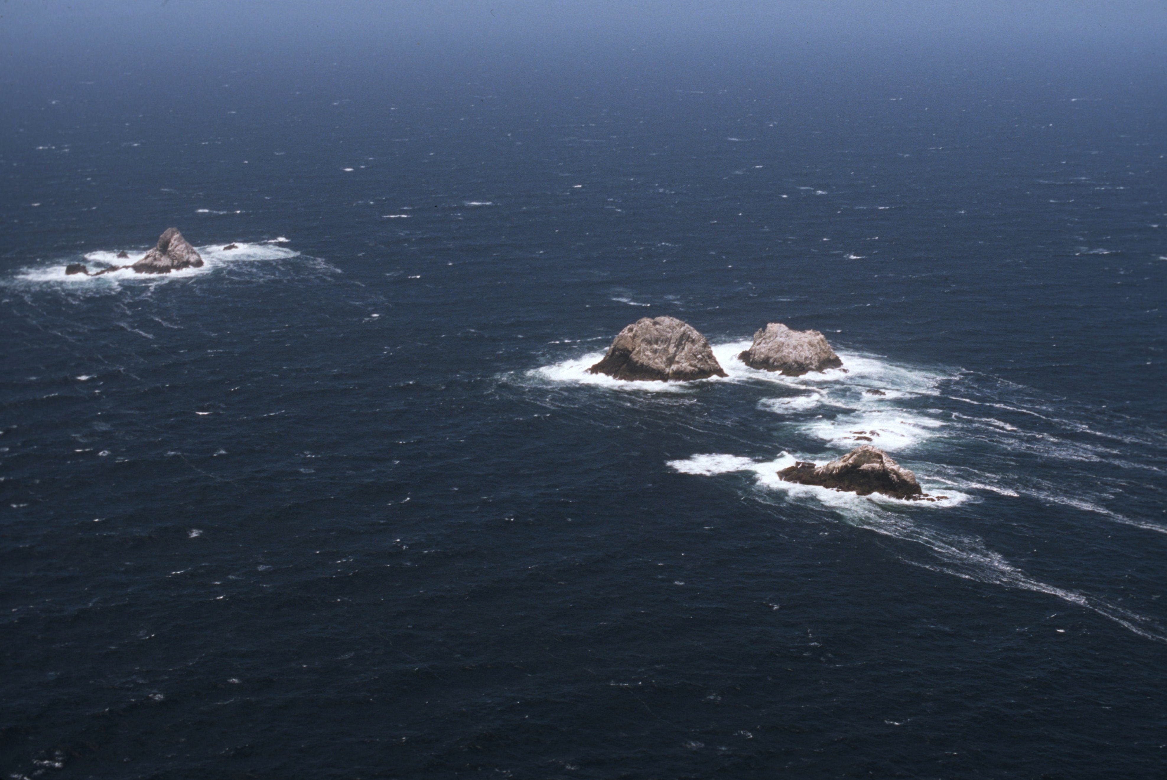 North Farallon Islands, part of the Farallon Islands, a group of islands off the coast of San Francisco, California, USA (seen from south). From left to right: North Farallon (North Island), Isle of St. James (West Island), East Island and South Island.